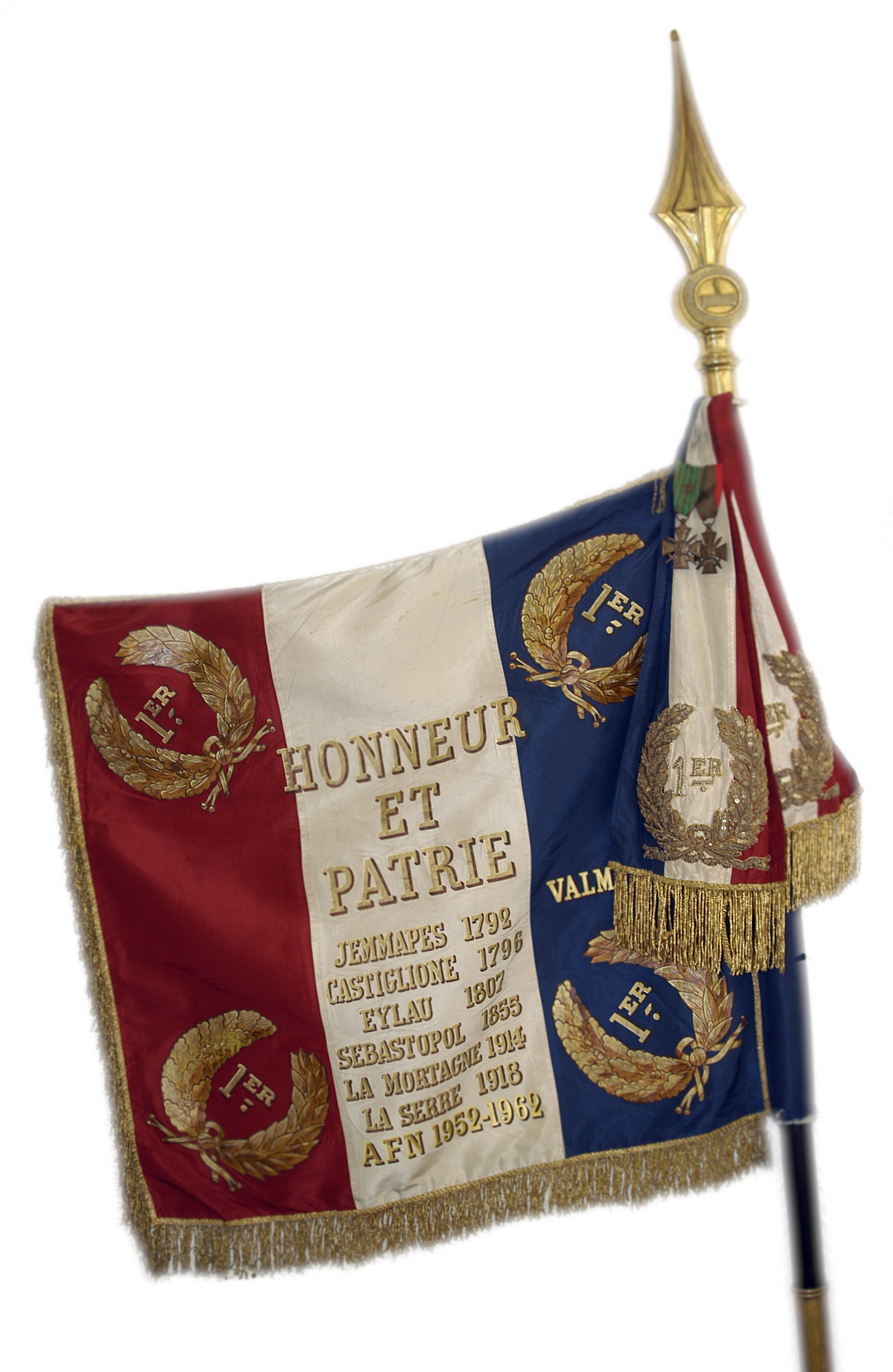 Flag of the 1st Airborne Hussars Regiment